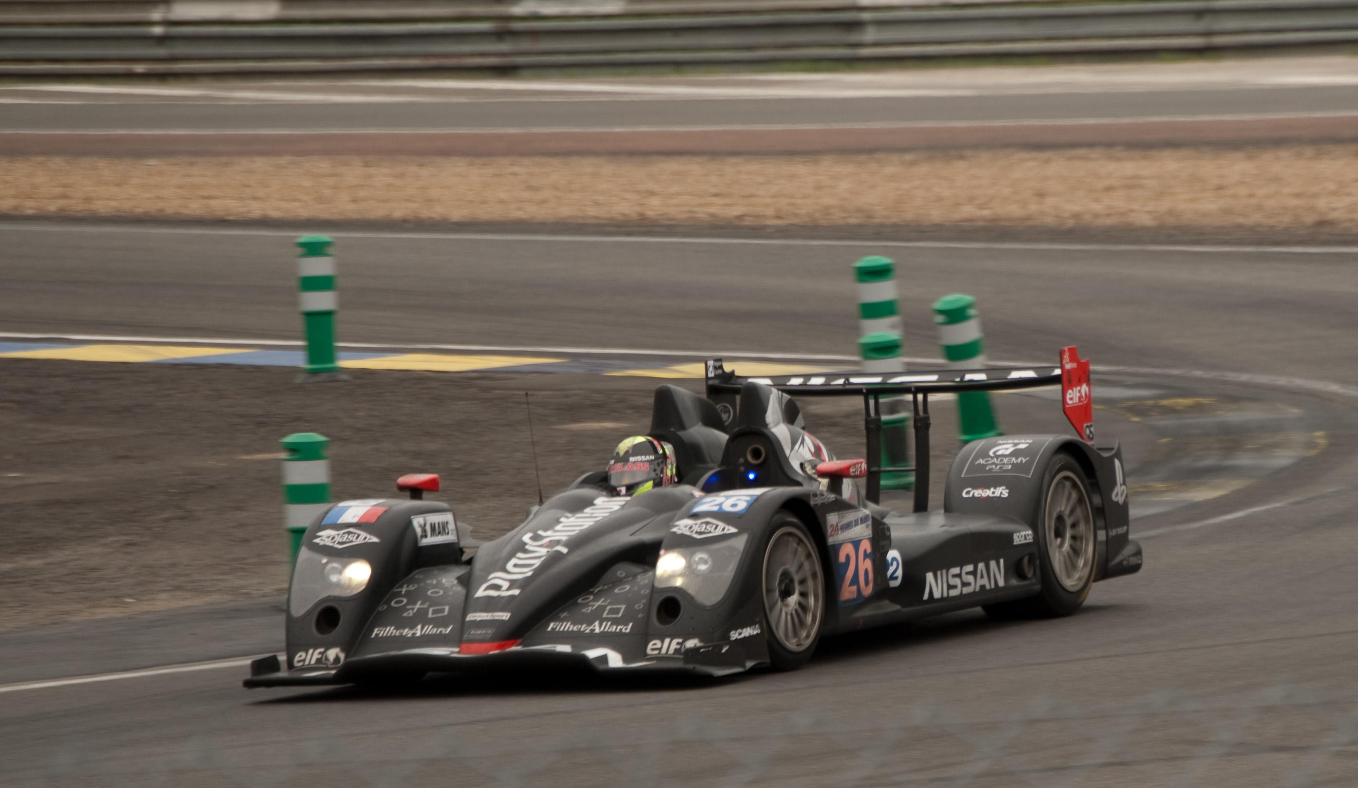 Oreca 03 Nissan from the team Signatech Nissan at the 24 hour race in Le Mans 2011, finished 2nd in class (LMP2) and 9th overall after 320 laps